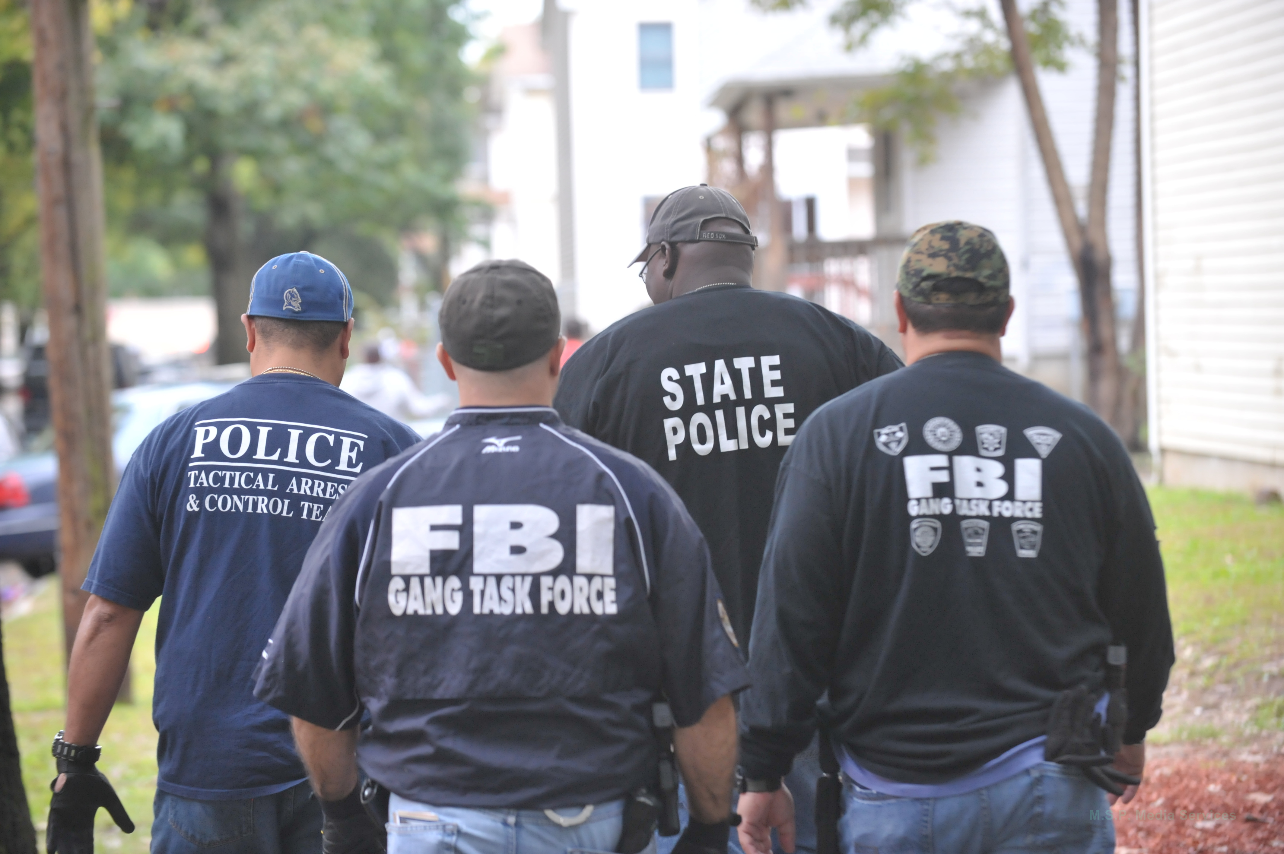 Local, State and Federal Officers on Operation Anvil 4.0 in Springfield, Mass. Operation Anvil is operated in conjunction with the C3 Team.